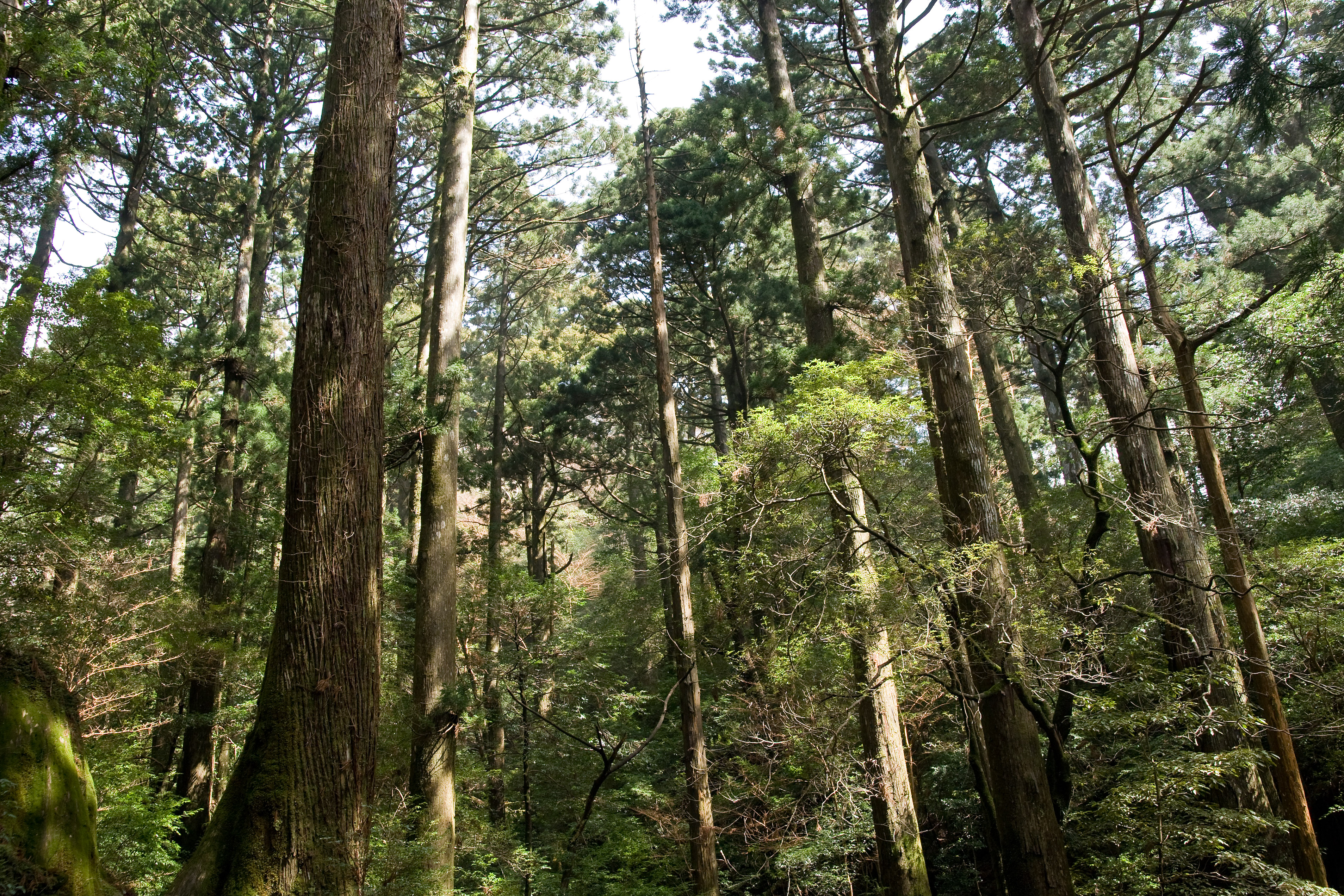 The forest in Yakushima, Kagoshima Pref., Japan.